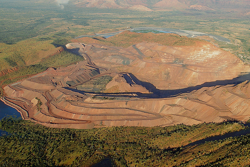 Argyle diamond mine, Western Australia, from plane